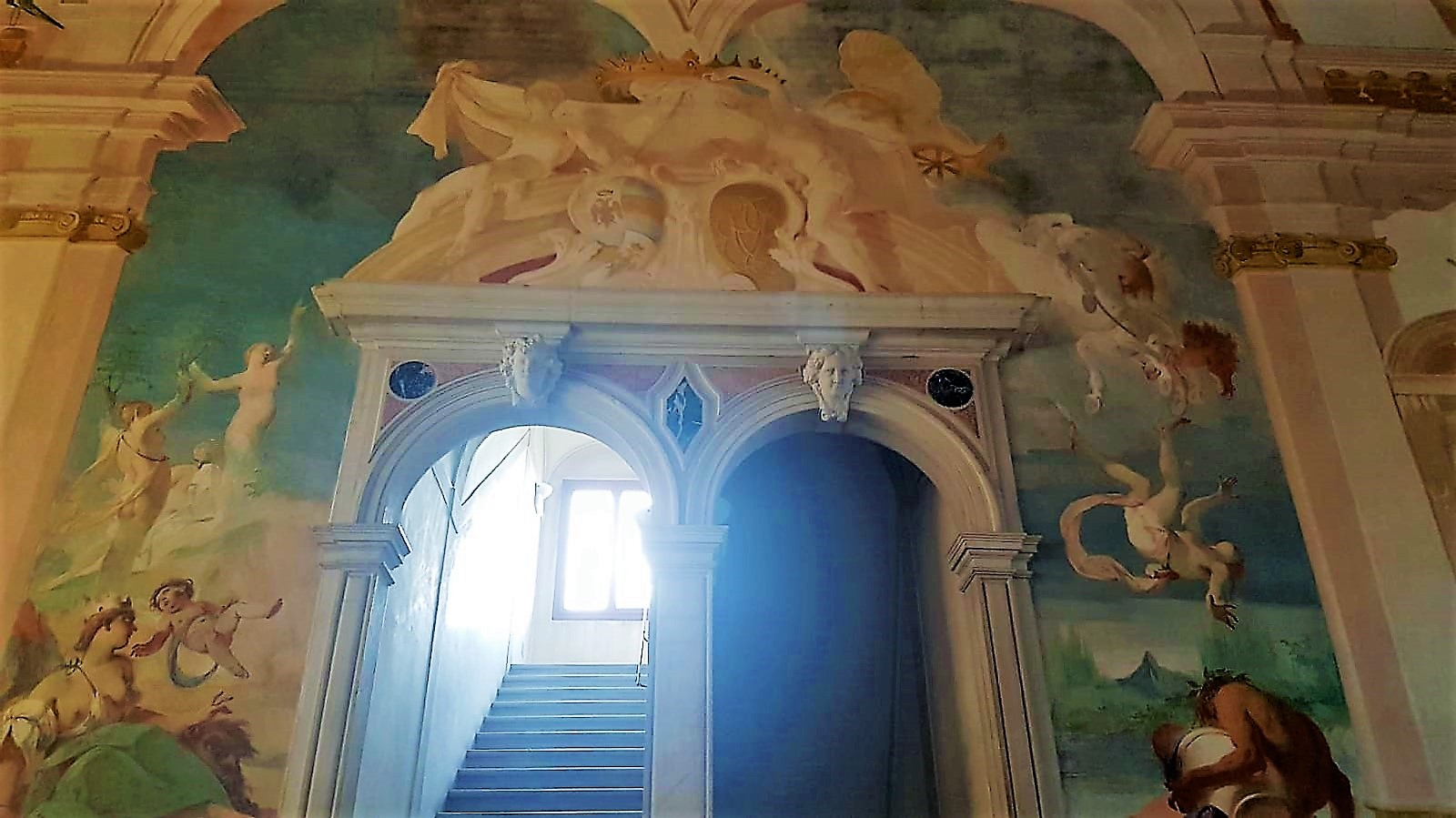 "Fall of Fetonte nell'Eridano" and "Le Eliadi are transformed into poplars" - West wall fresco, Villa Baglioni hall in Massanzago.